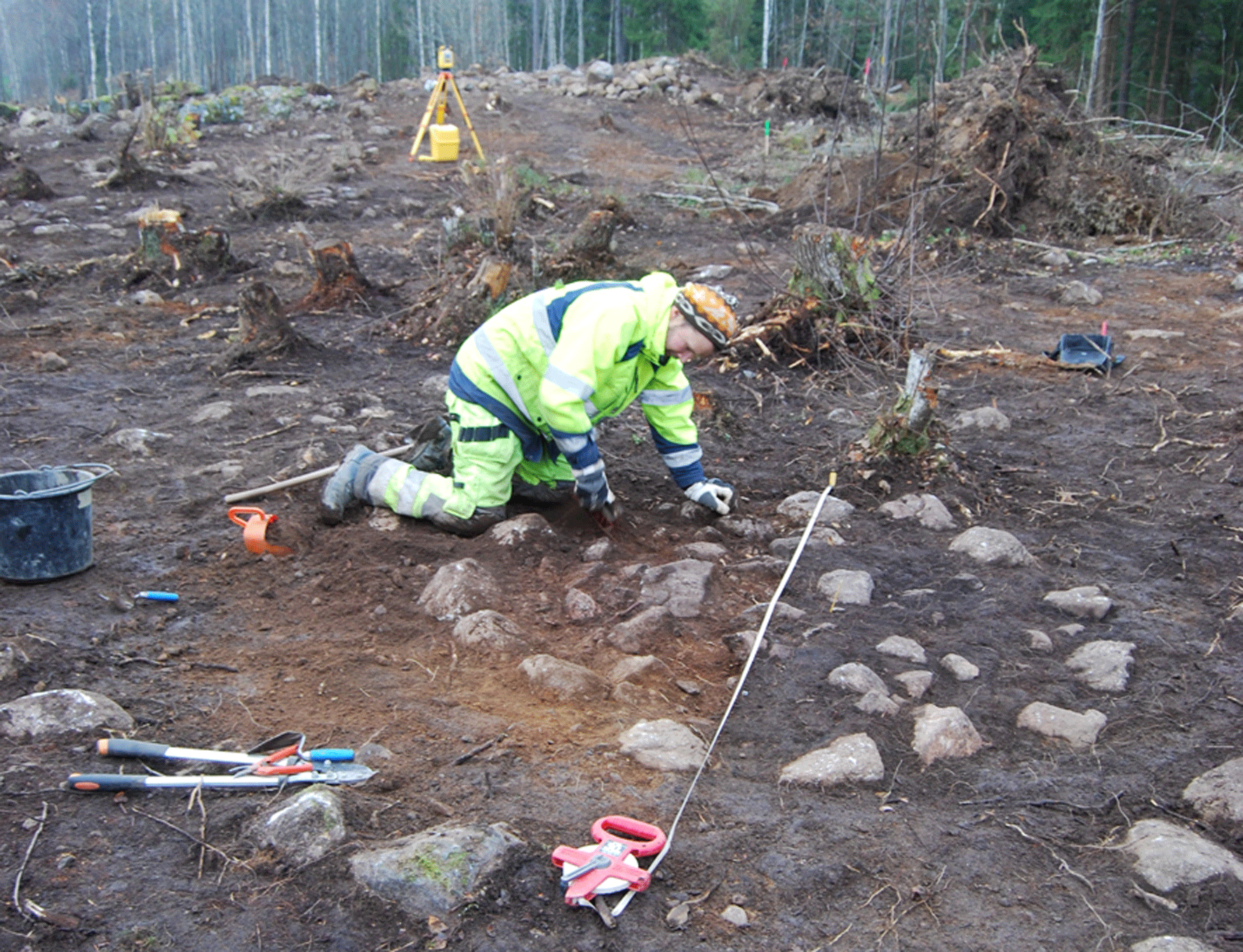 Excavation of stone formation in Björke, Trosa Municipality.